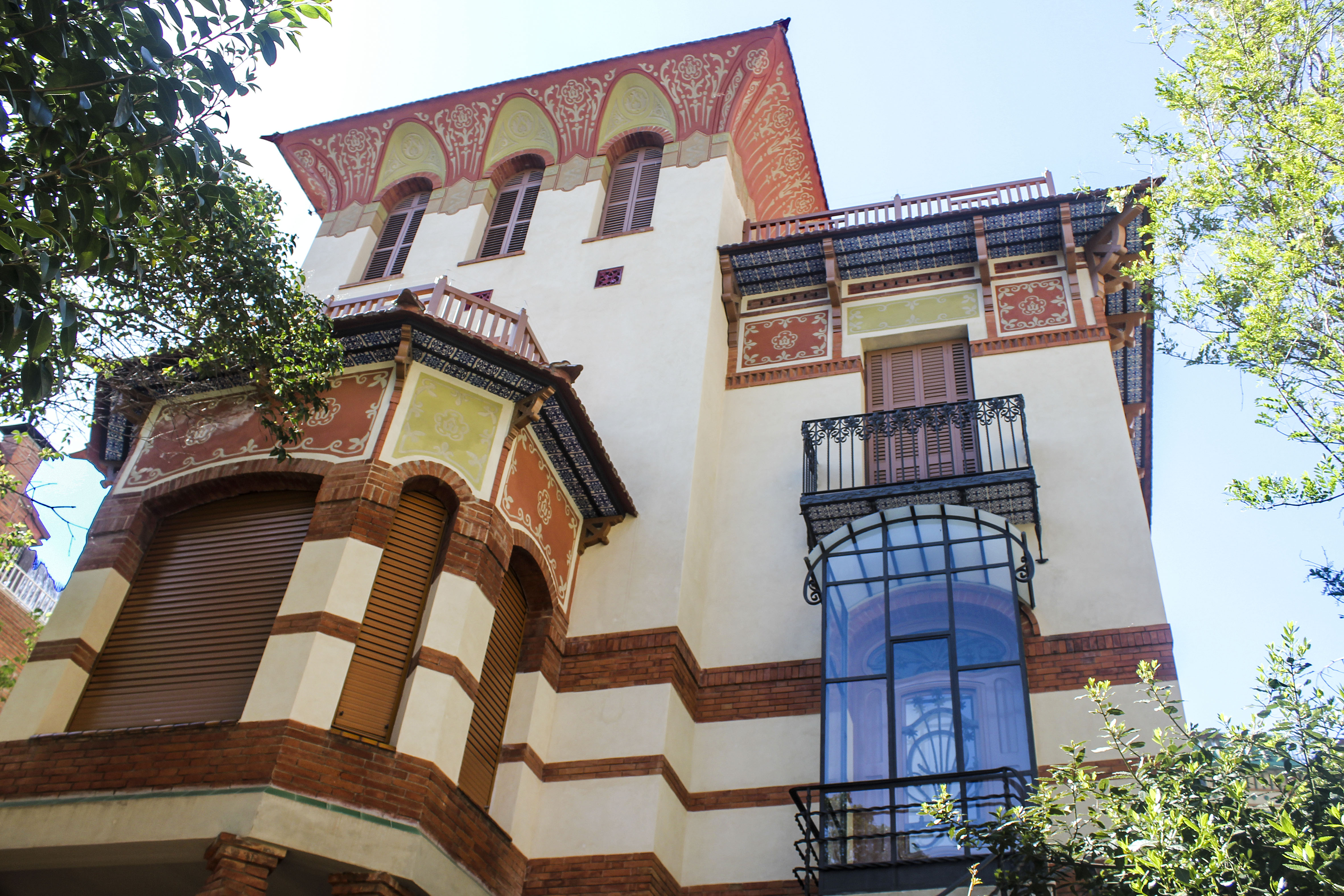 Vila Matilde